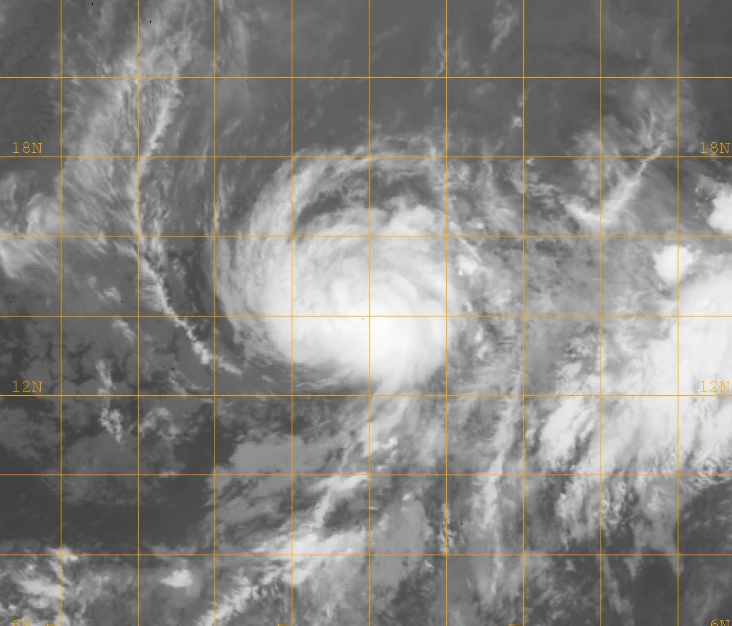 Tropical Storm Cosme of 2007, seen from GOES-11 satellite at 1330Z July 16.